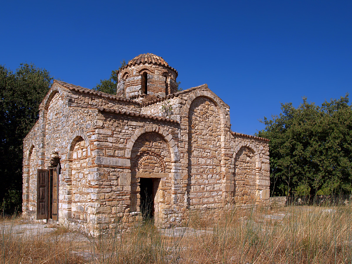 Old church in the countryside South of Aptera and East of Farangi